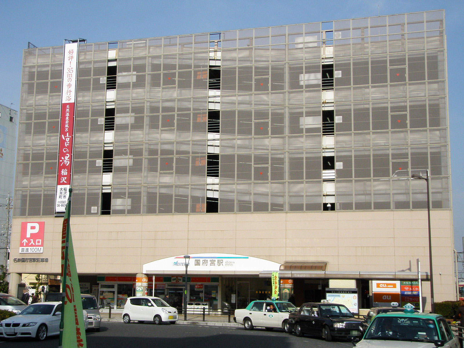 Nagoya Railroad Nagoya Main Line Konomiya Station Building